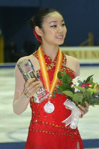 Kim Yu-Na during the ladies medals ceremony at the 2008-2009 Grand Prix Final.